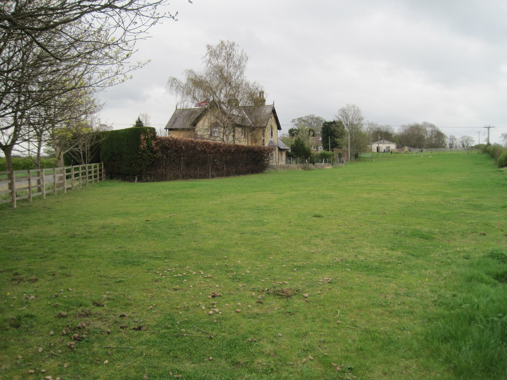 Newton Kyme railway station (site), YorkshireOpened in 1847 by the York & North Midland Railway on its line from Church Fenton to Harrogate (Brunswick), this station closed in 1964. View south east from the main road, towards Tadcaster and Church Fenton.